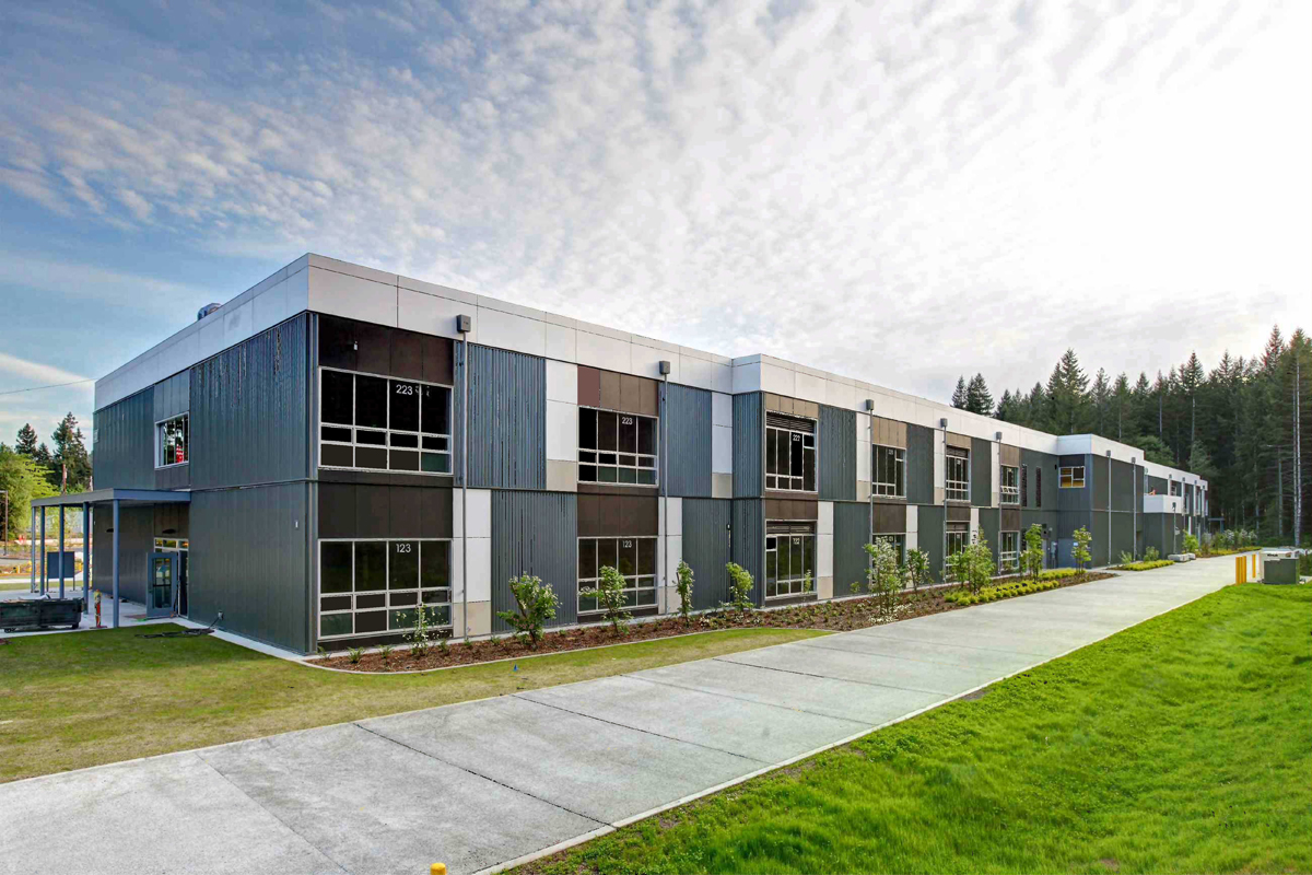 Back View of STEM School